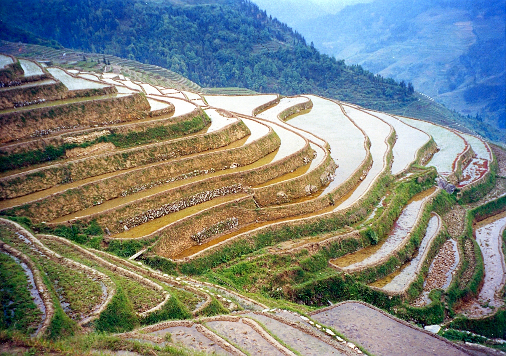 Rice terraces, Longji, Guangxi, China.